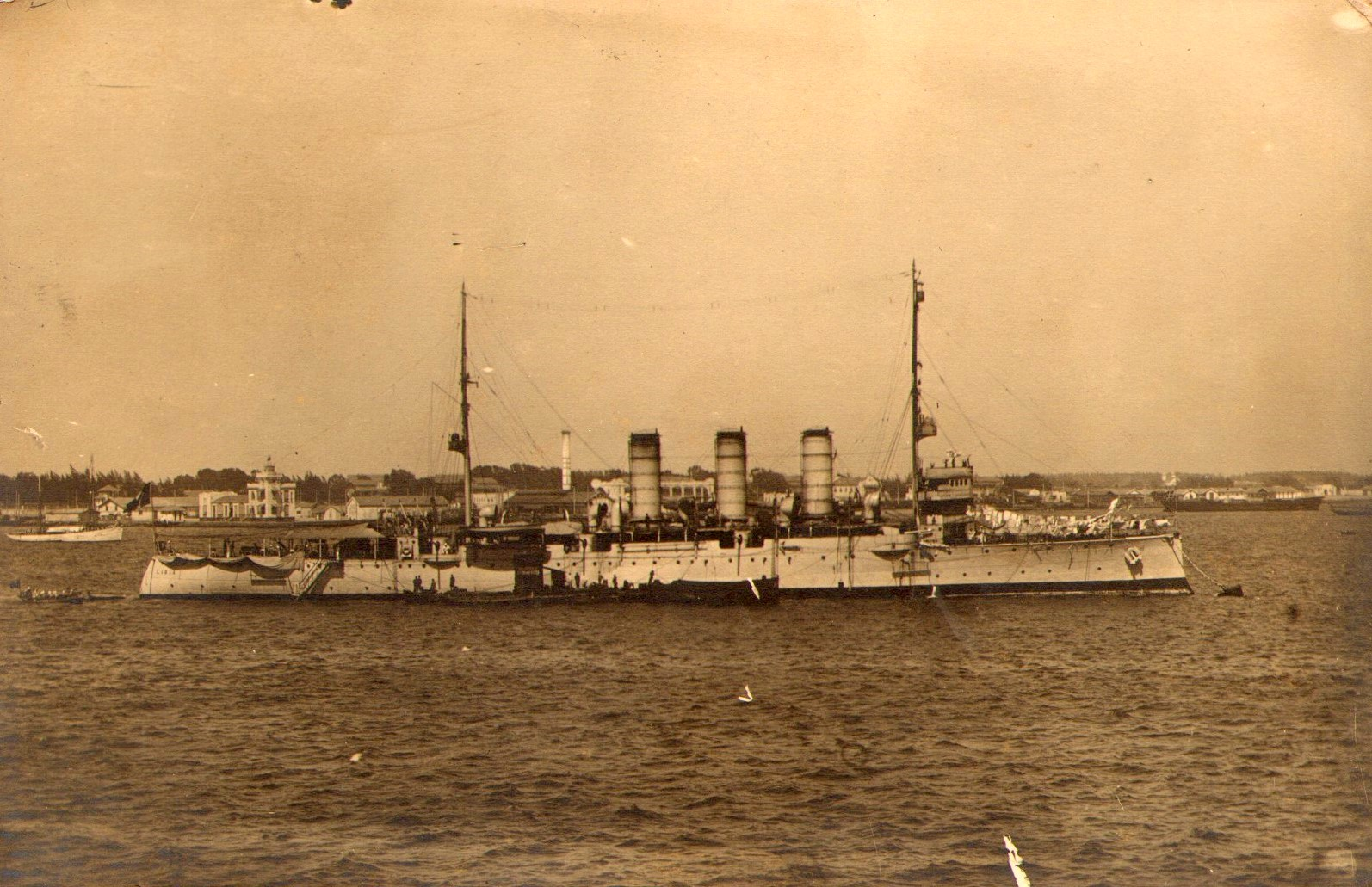 Cruiser Libia. The original picture, scanned by Emiliano Burzagli, belongs to the Private archive of Burzaghi family, Italy.